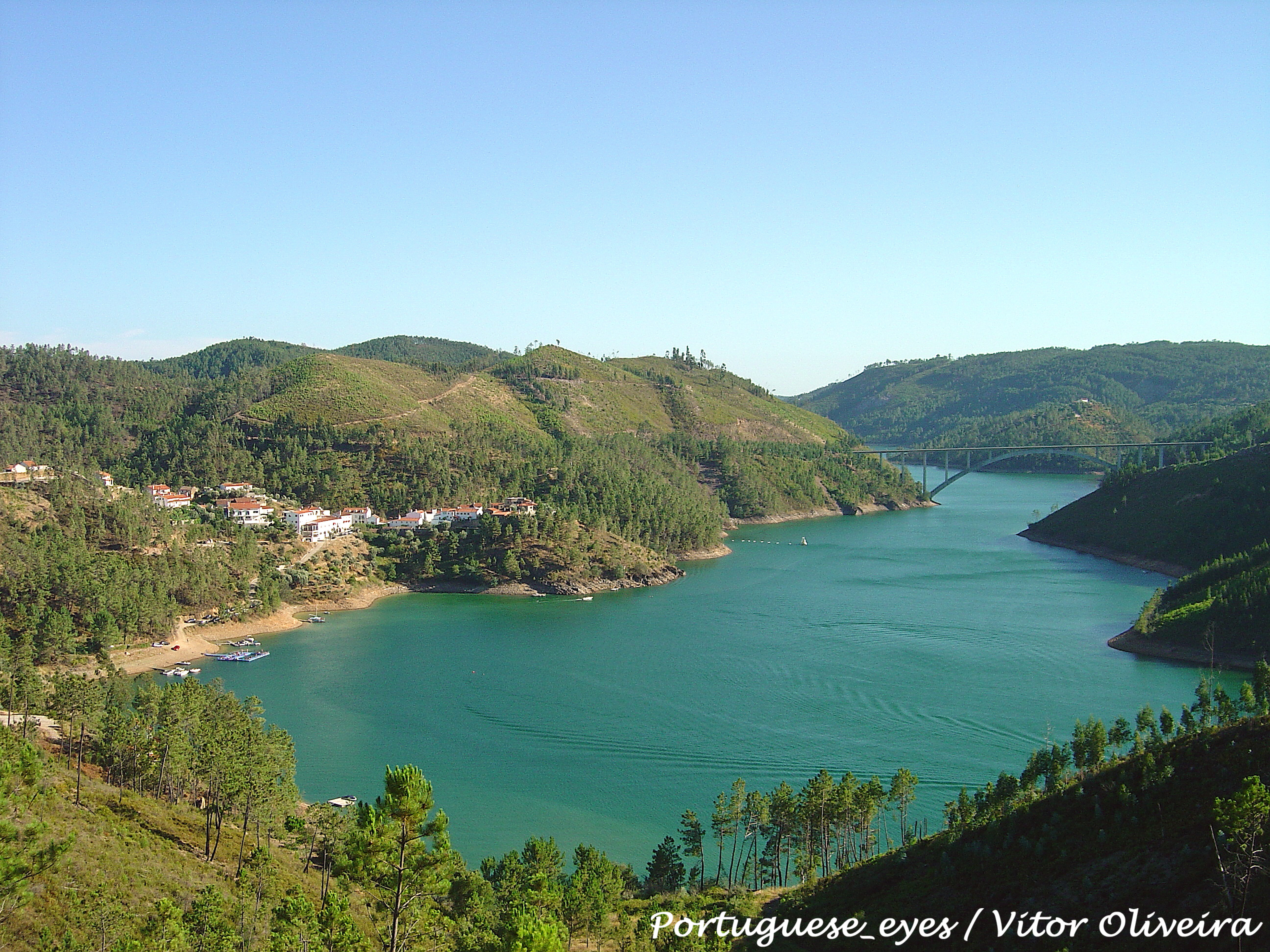 See where this picture was taken. [?]